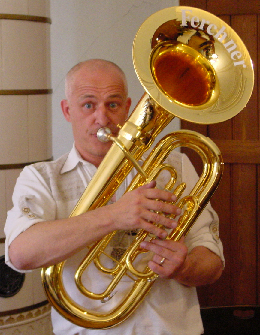 Bellfront Baritonhorn